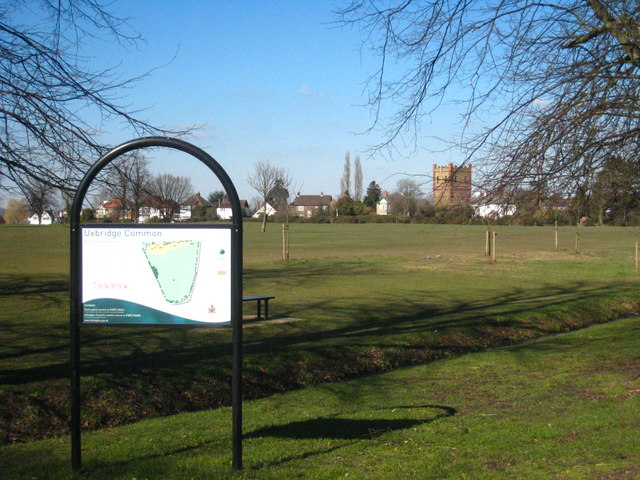 Uxbridge Common A registered common of 5.2 hectares, mainly grassed open space but along the northern edge there is an area of acid grassland and gorse.